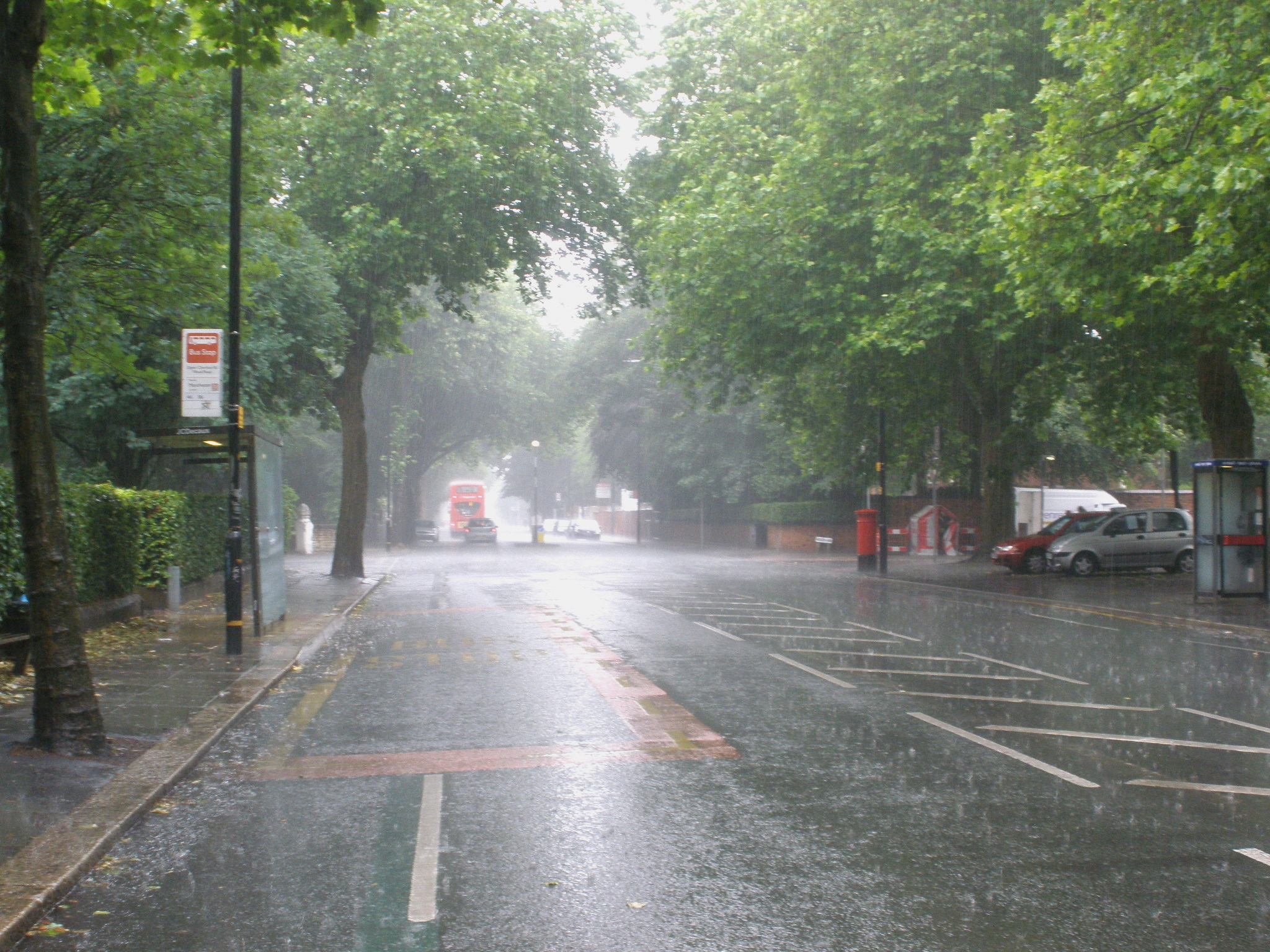 Upper Chorlton Road in the summer rain - Whalley Range, Manchester.